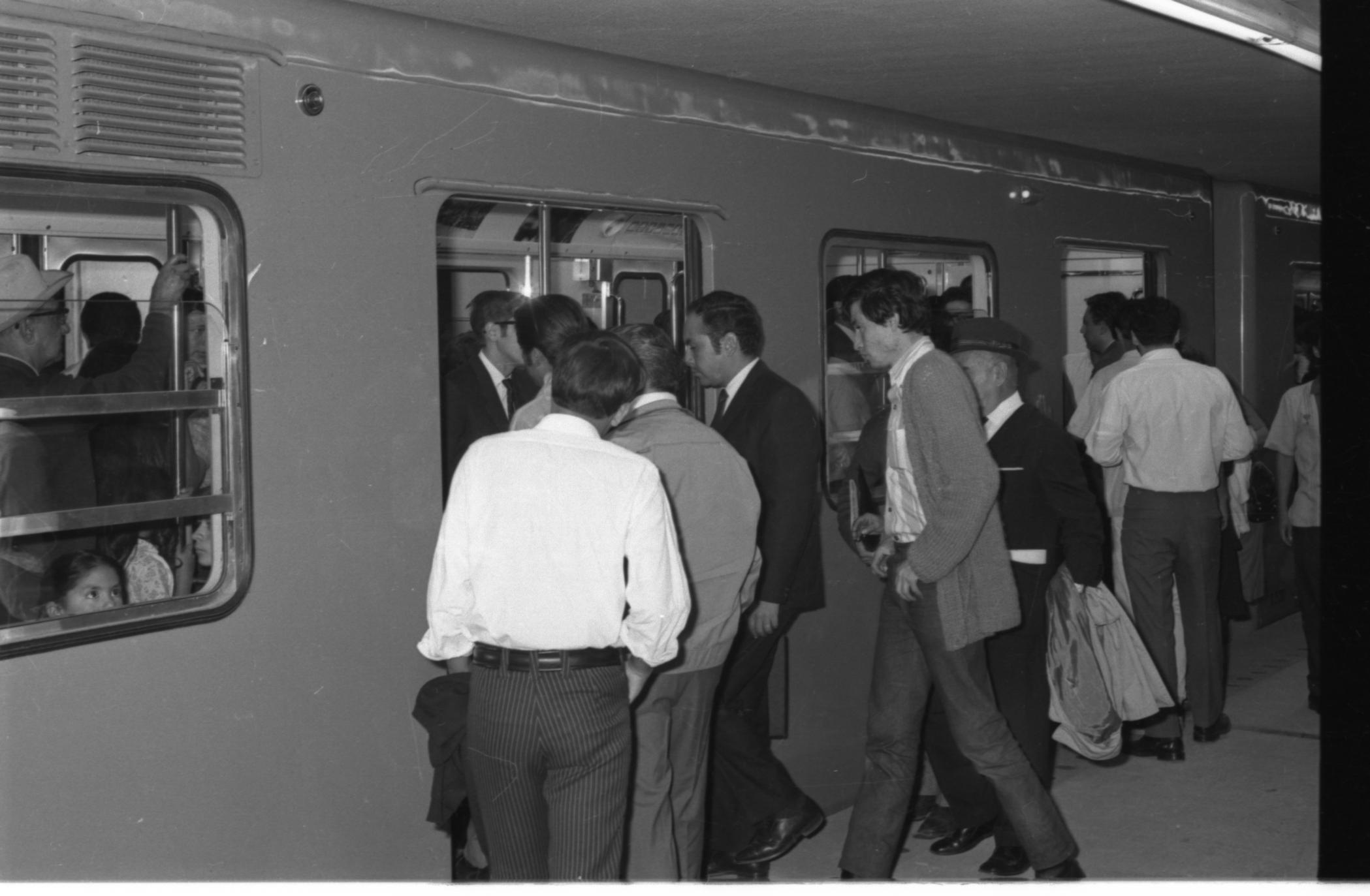 Passengers Chapultepec station after opening of Mexico City Subway, Mexico City, Mexico.